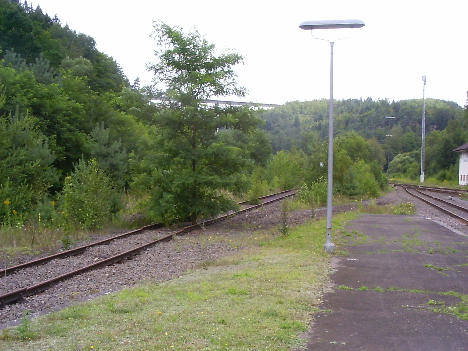 Disused track at Pirmasens Nord train station